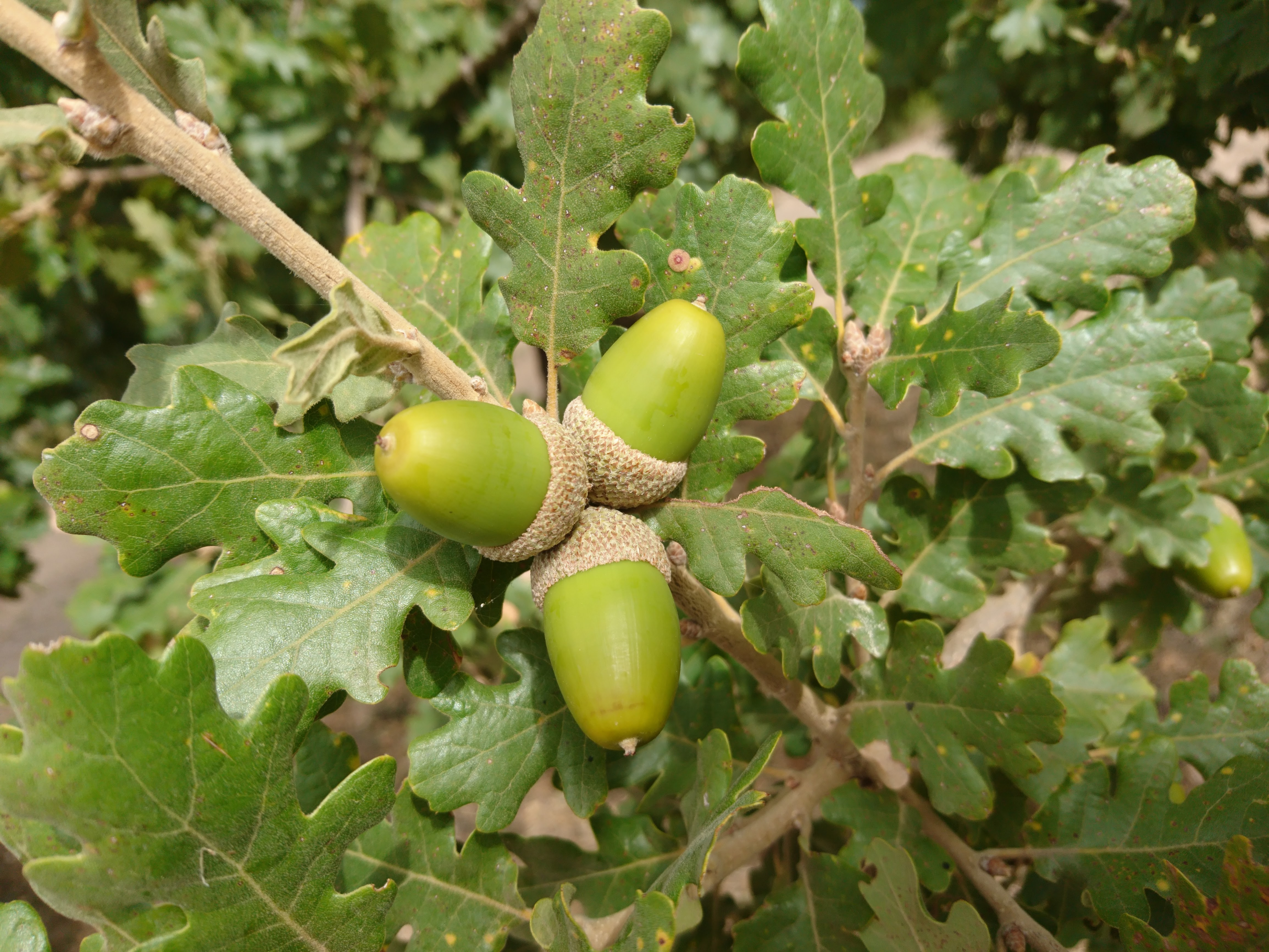 This is a photography of Natura 2000 protected area with ID GR2330002